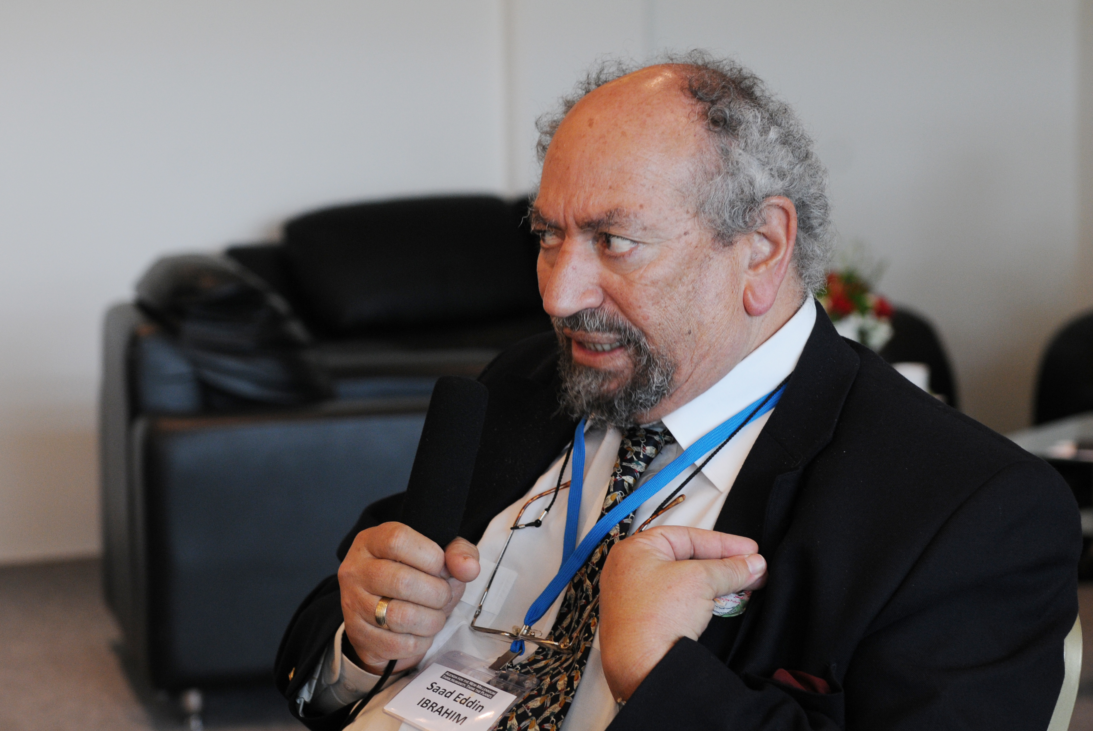 Abu Dhabi / UAE, 20 January 2009 - Saad Eddin Ibrahim, recipient of the 2008 Danish Pundik Prize, participates in a plenary session of the Agenda for the New Millennium summit.